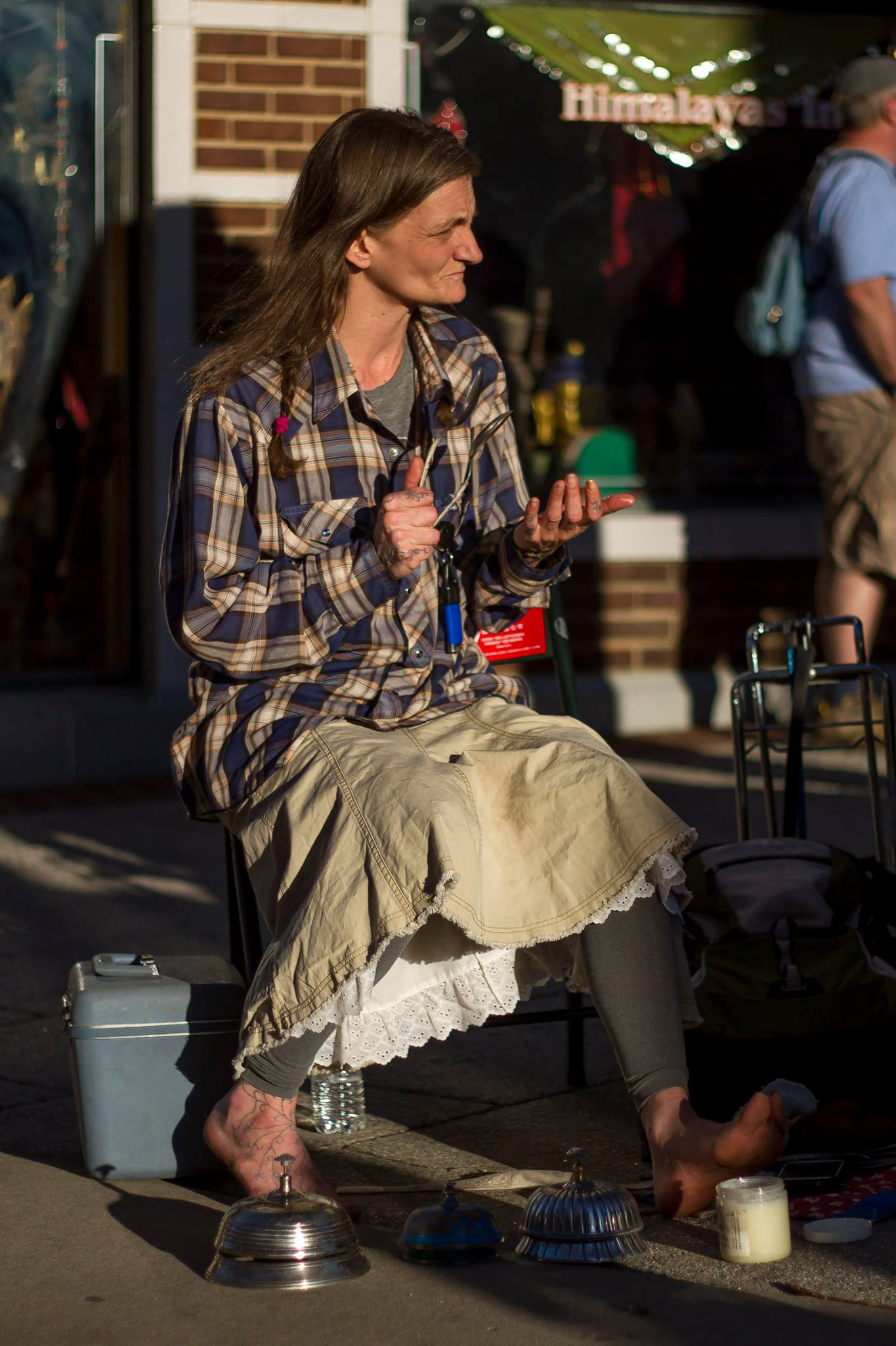 Abby the Spoon Lady performing in downtown Asheville, NC.